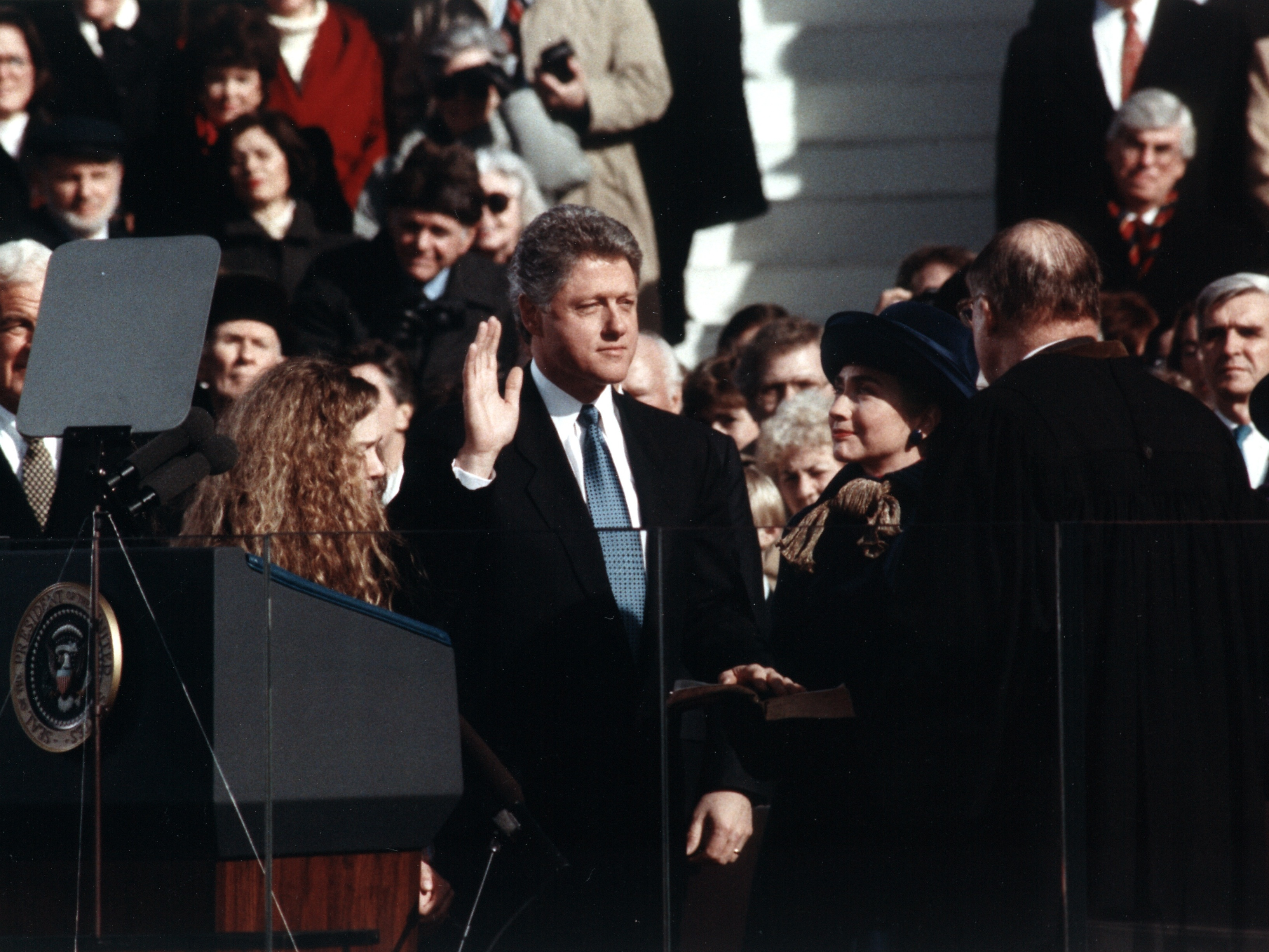 Cropped version of File:Bill Clinton taking the oath of office, 1993.jpg